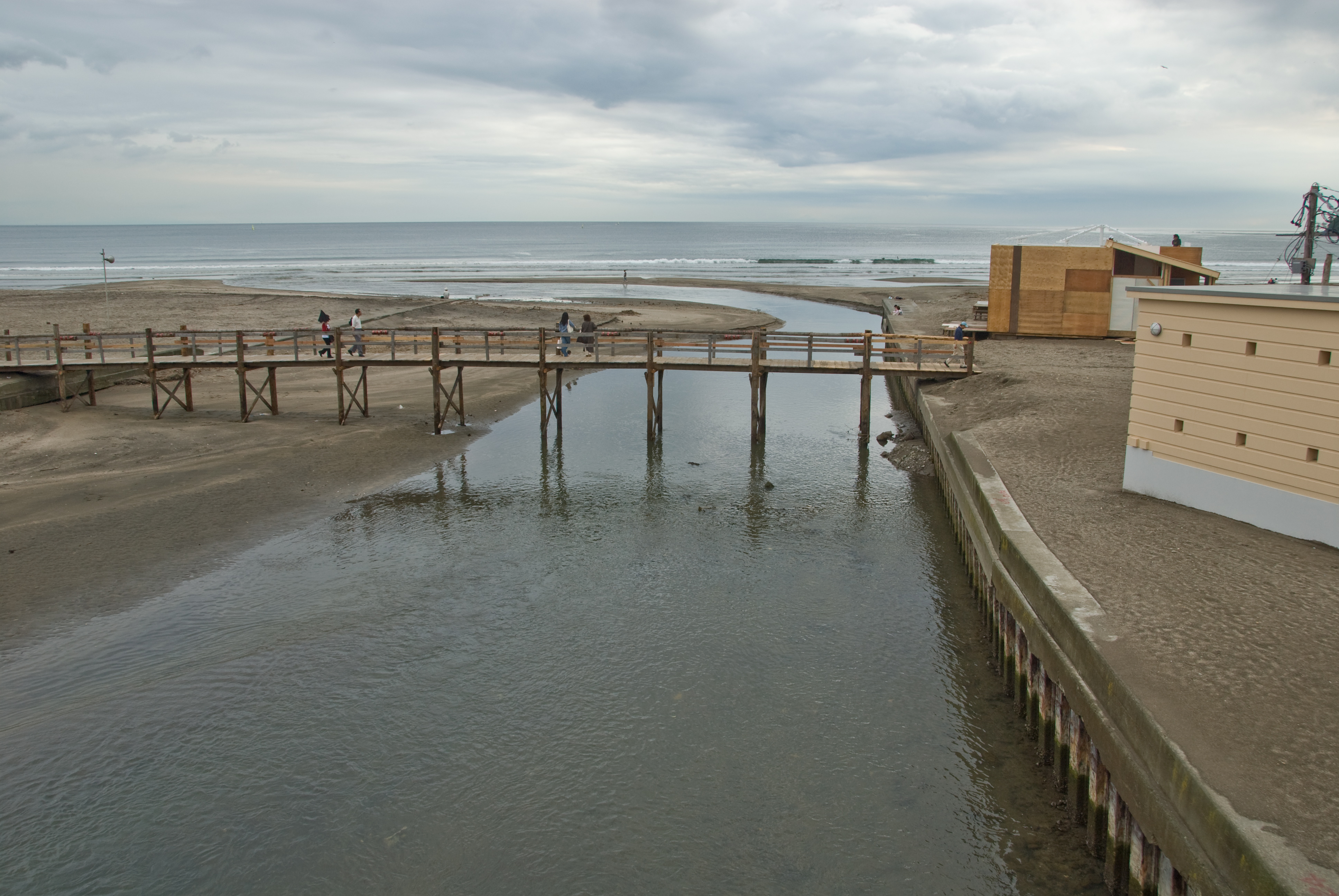 The Namerikawa in Yuigahama, July 2008. Photo taken from the very end of Wakamiya Ōji